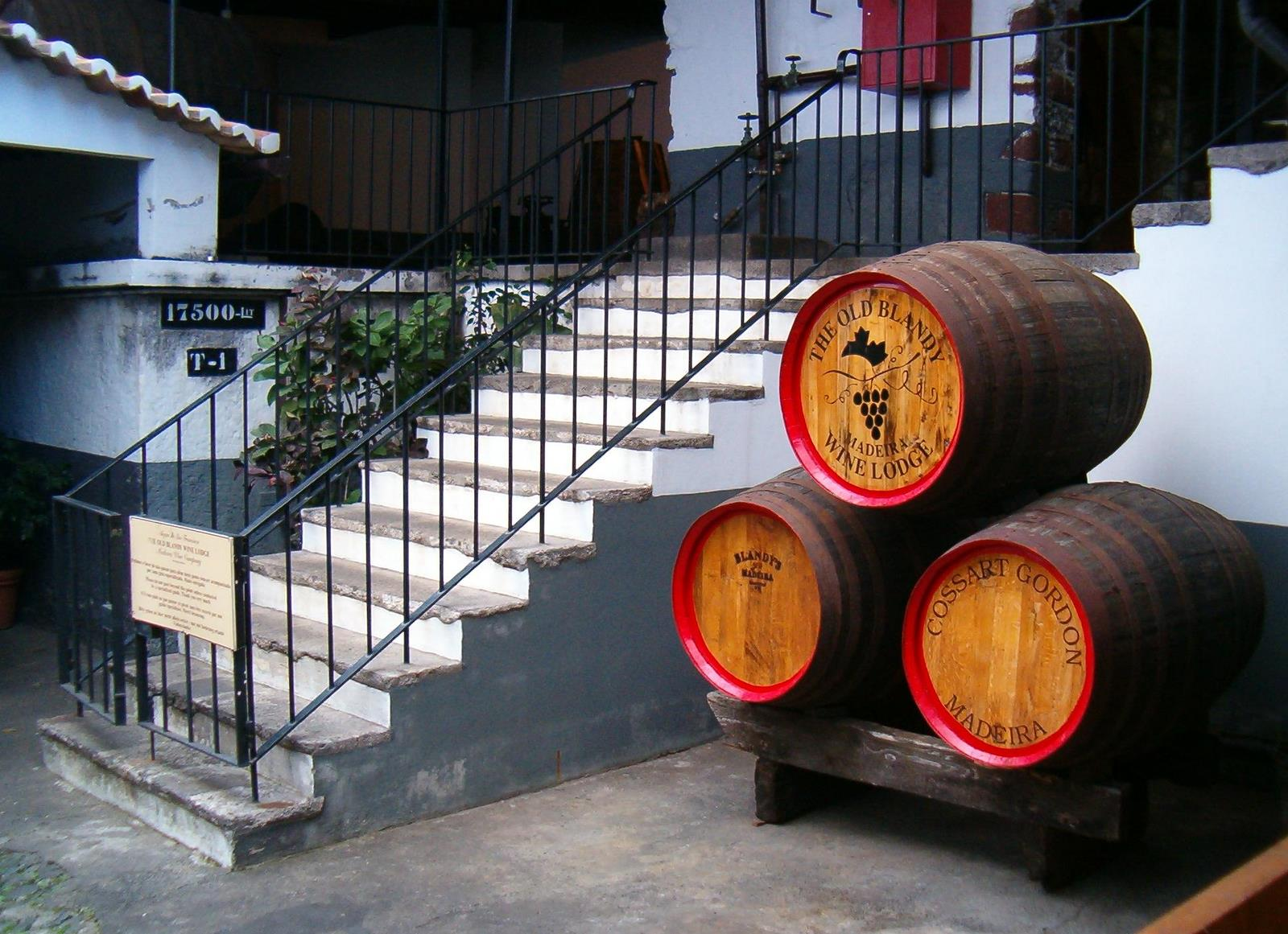 Madeira wine Arcadas Sao Francisco